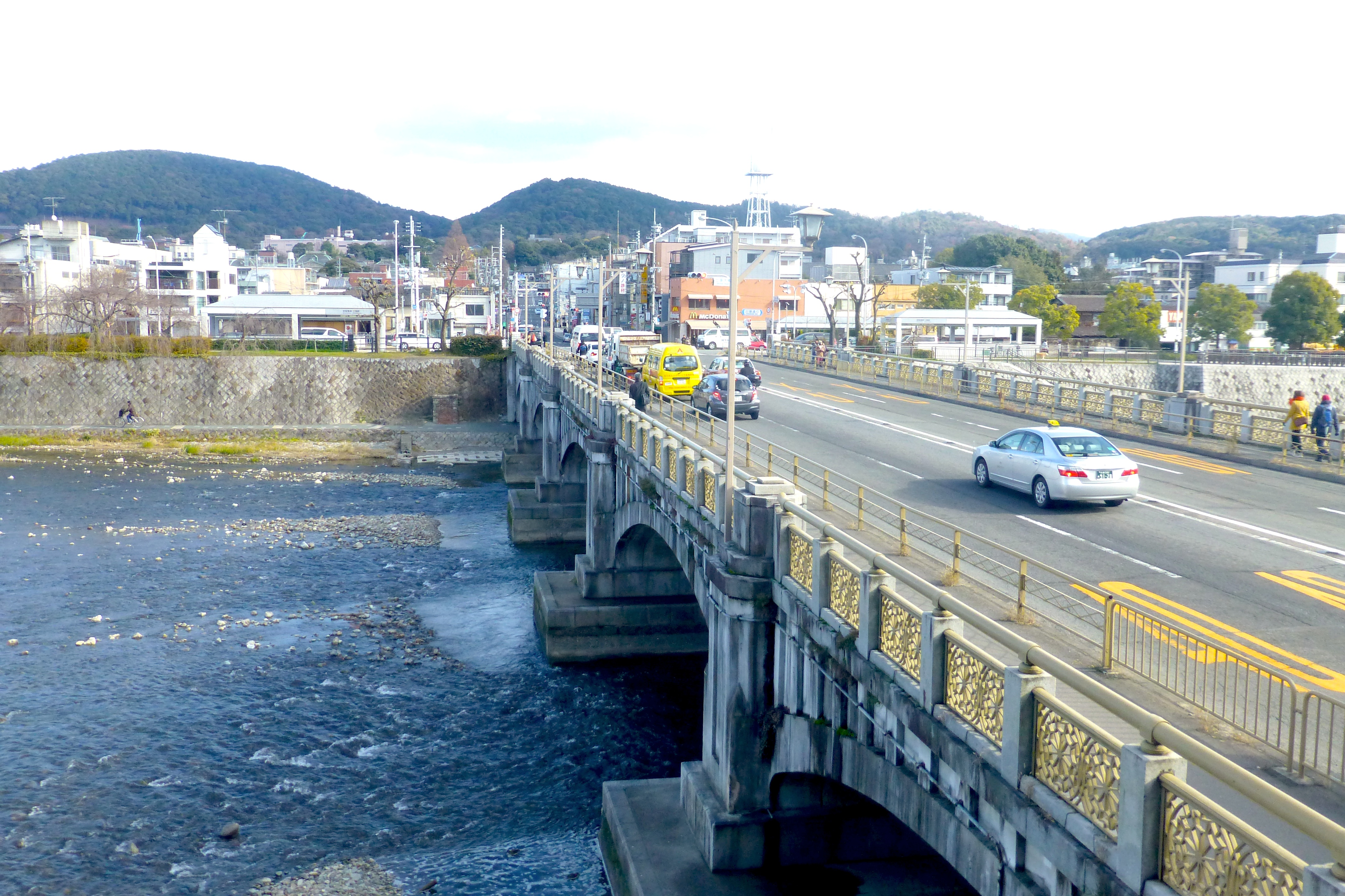 Shichijō ohashi (big bridge) is a bridge in Kyoto, Japan.